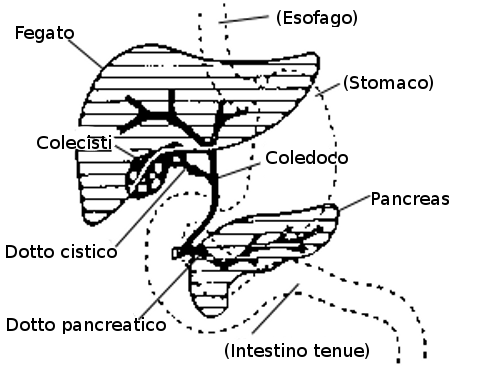 Digestive system diagram showing bile duct location.